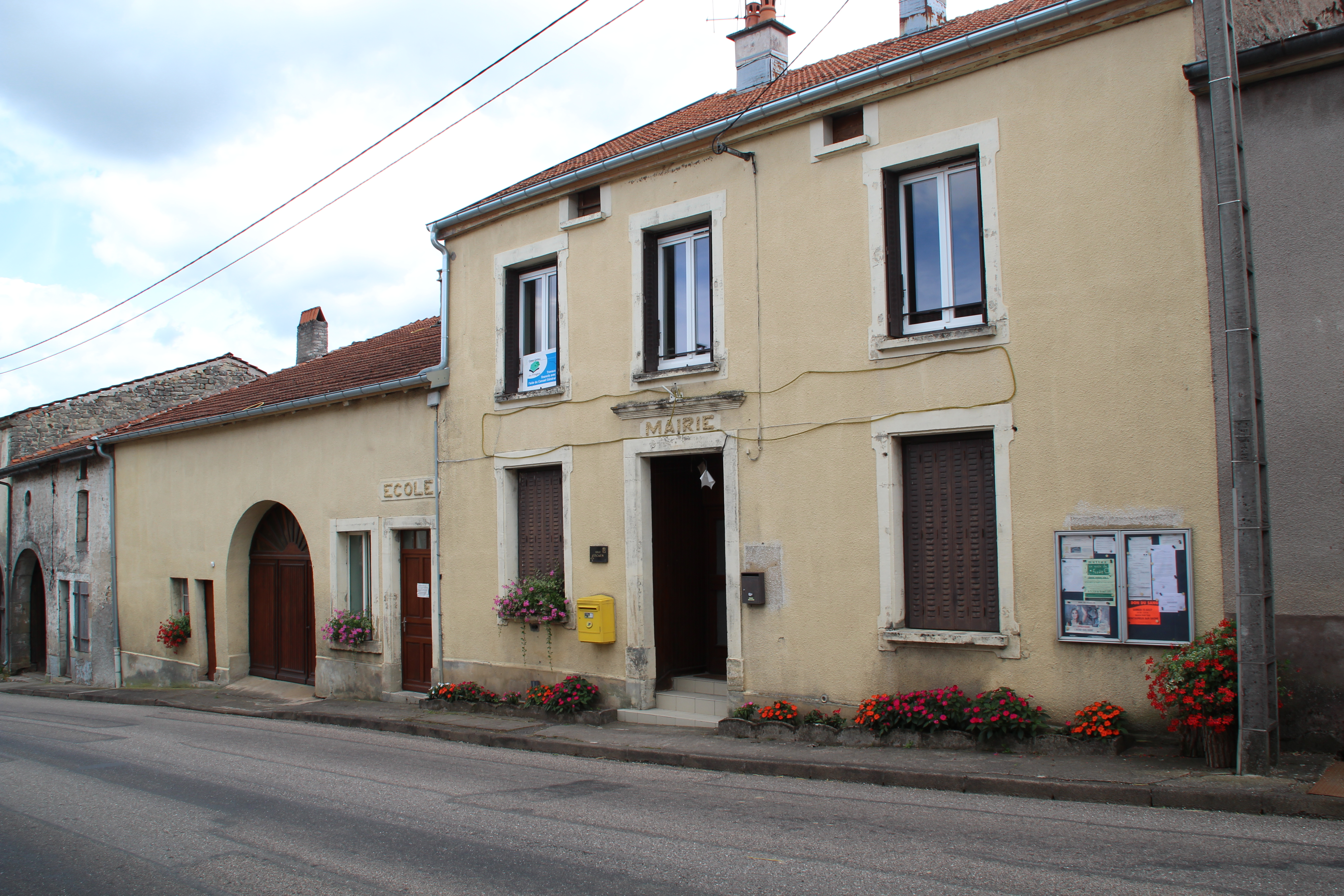 Town hall of Châtillon-sur-Saône, France. Object location47° 56′ 52.16″ N, 5° 52′ 59.96″ E This image was uploaded as part of L'Été des villes 2015.